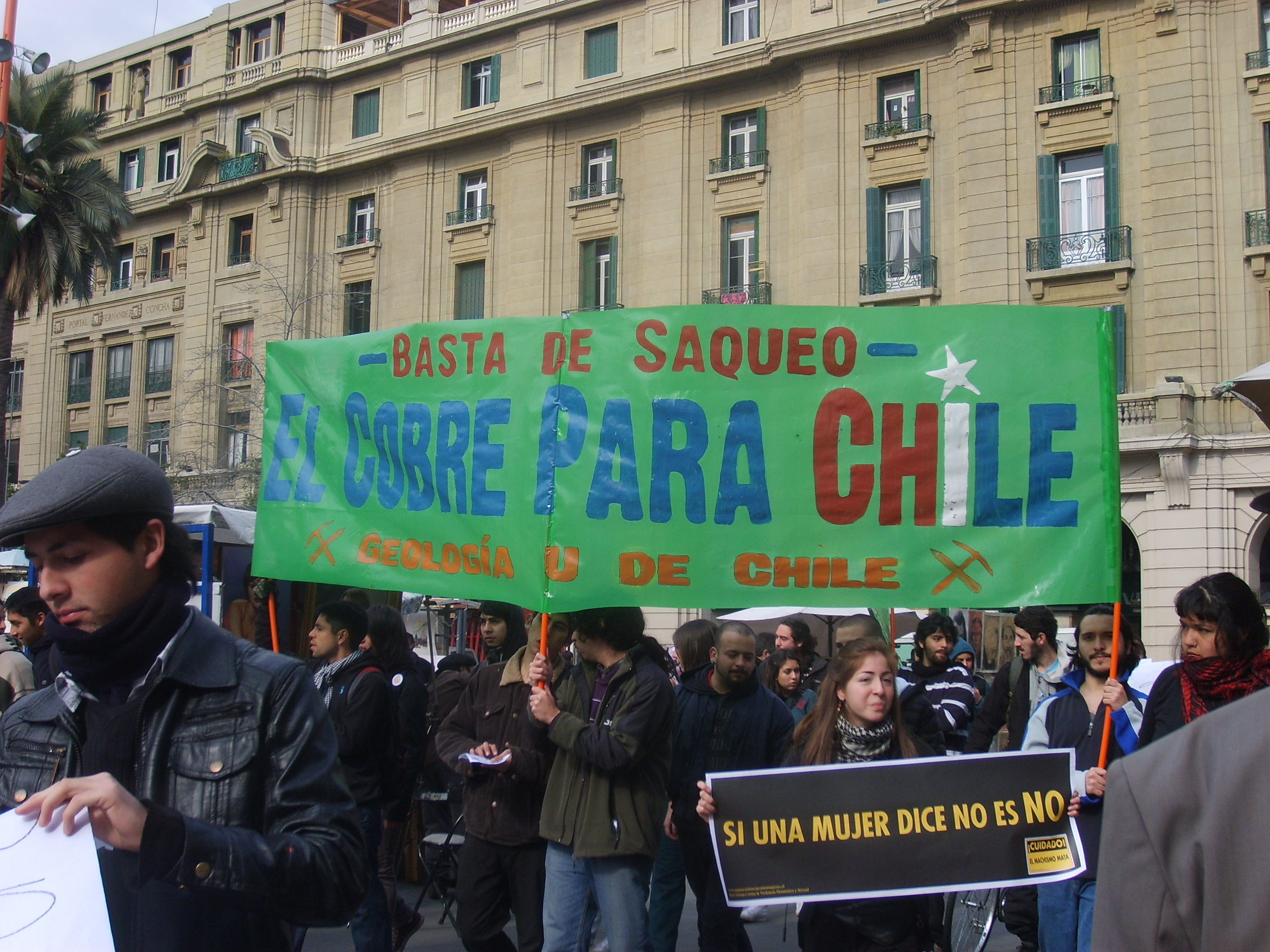 Chilean mining students protesting as part of the 2011 Chilean student protests